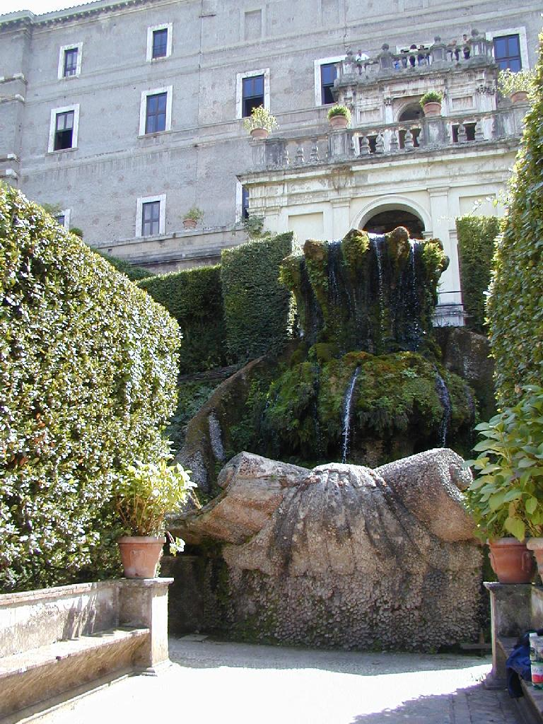 Tivoli, Villa d'Este facade and fountain of Giglio by Lalupa